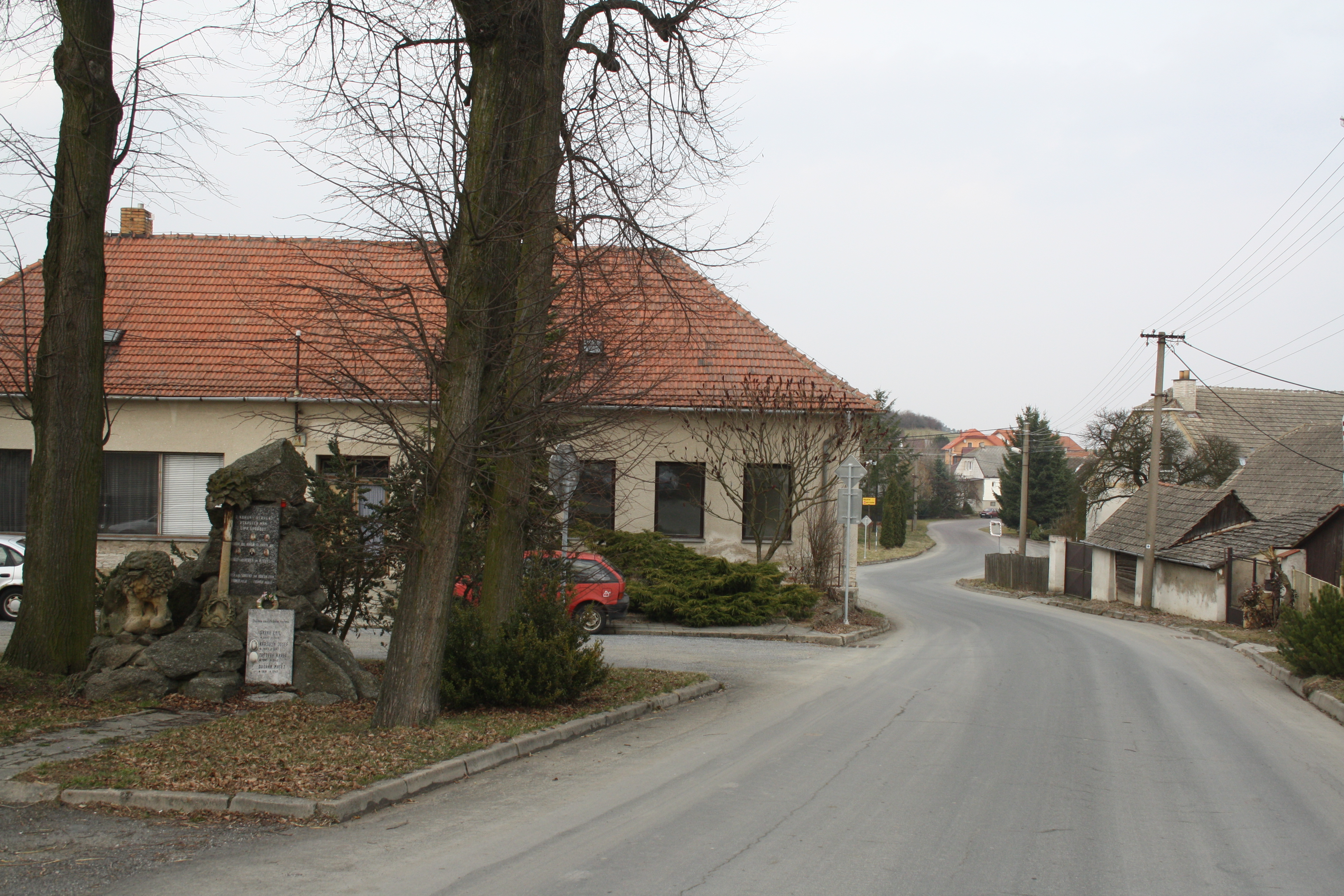 Center square of Klučov.